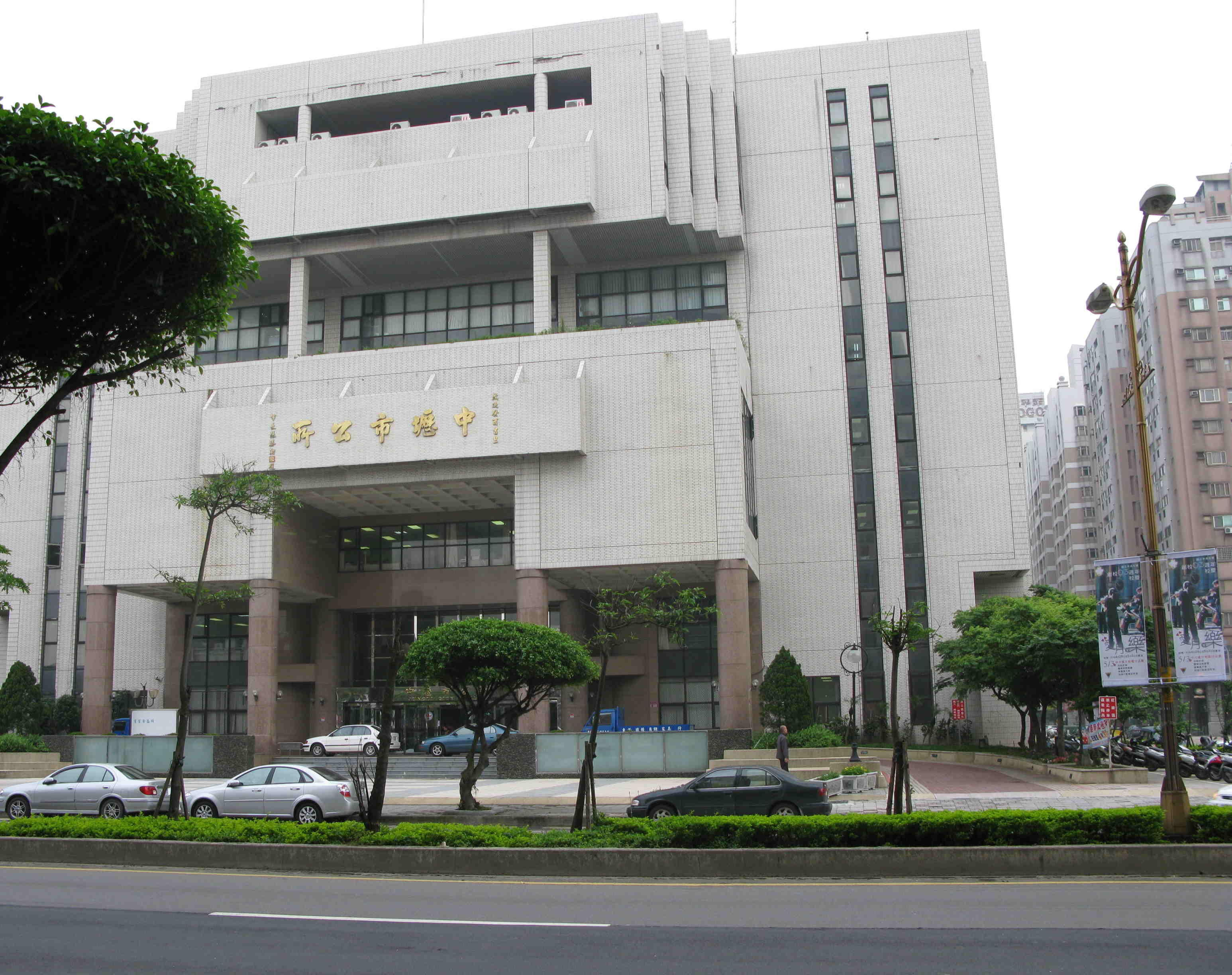 Jhongli City Office, Taoyuan County.